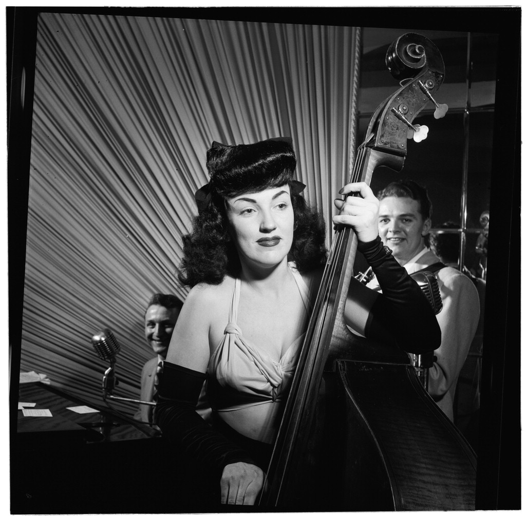 Gottlieb, William P., 1917-, photographer. [Portrait of Teddy Kaye, Vivien Garry, and Arv(in) Charles Garrison, Dixon's, New York, N.Y., ca. May 1947] 1 negative : b&w ; 2 1/4 x 2 1/4 in. Notes: Gottlieb Collection Assignment No. 519 Reference print available in Music Division, Library of Congress. Purchase William P. Gottlieb Forms part of: William P. Gottlieb Collection (Library of Congress). Subjects: Kaye, Teddy Garry, Vivien Garrison, Arv(in) Charles Women jazz musicians--1940-1950. Double bassists--1940-1950. Jazz musicians--1940-1950. Dixon's Format: Portrait photographs--1940-1950. Group portraits--1940-1950. Film negatives--1940-1950. Rights Info: Mr. Gottlieb has dedicated these works to the public domain, but rights of privacy and publicity may apply. Repository: (negative) Library of Congress, Prints & Photographs Division, Washington D.C. 20540 USA, (reference print) Library of Congress, Music Division, Washington D.C. 20540 USA, Part Of: William P. Gottlieb Collection (DLC) 99-401005 General information about the Gottlieb Collection is available at Persistent URL: Call Number: LC-GLB23- 0303 This work is from the William P. Gottlieb collection at the Library of Congress. Rights and restrictions.In accordance with the wishes of William Gottlieb, the photographs in this collection entered into the public domain on February 16, 2010.